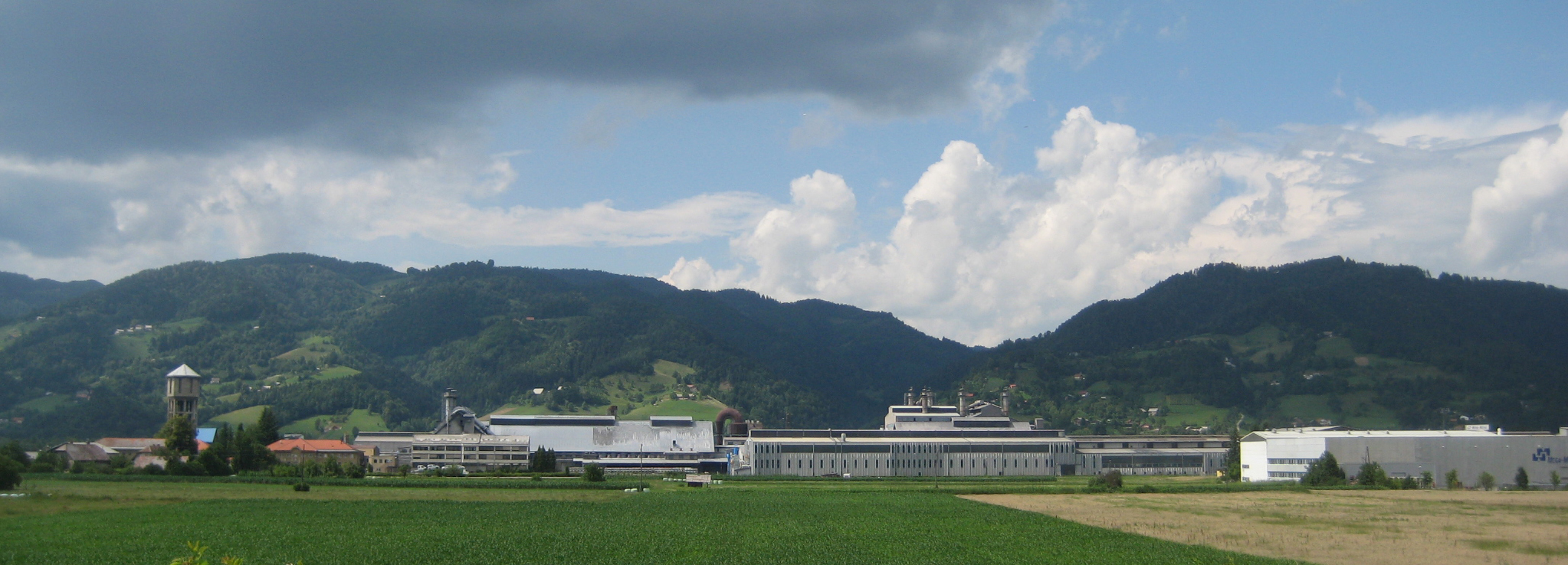 Ruše factory, Slovenia